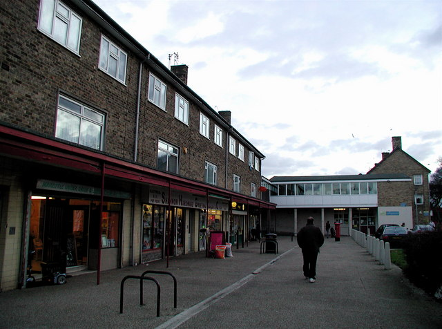 Shannon Road Shopping Centre, Longhill